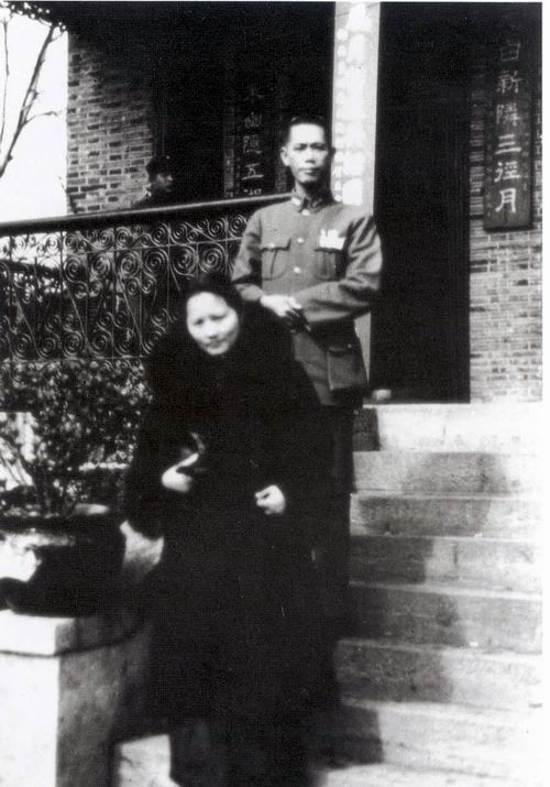 Soong Ching-ling and Cai Tingkai